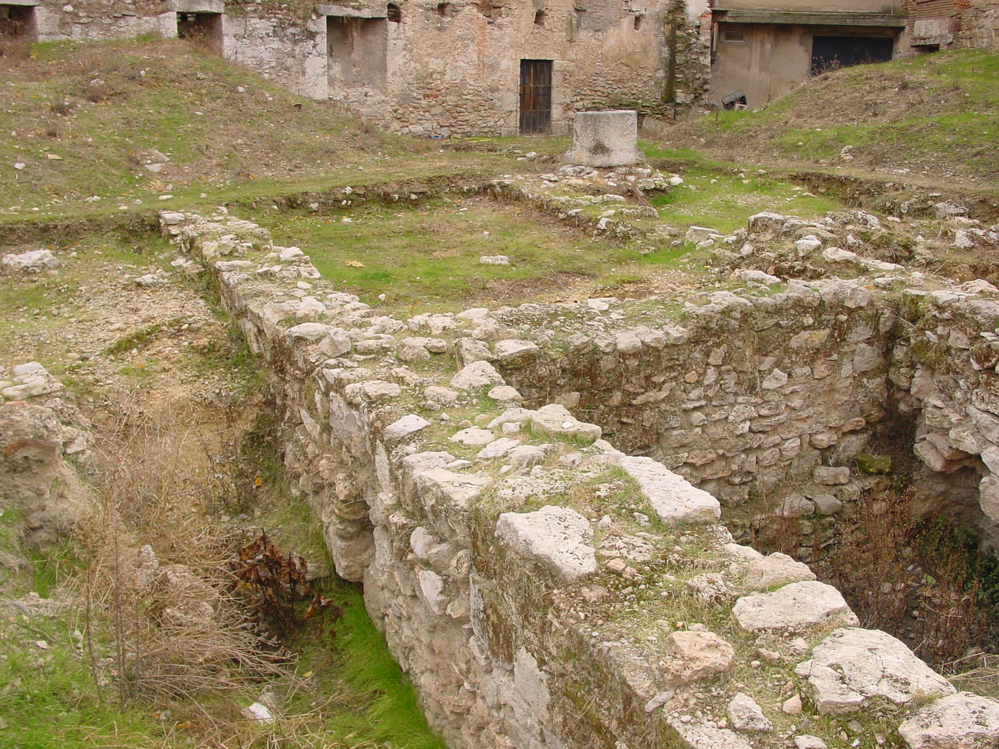 Lateral of Fabio Nelli palace in Valladolid, Spain. It's a vacant lot where archeological rests have been discovered.